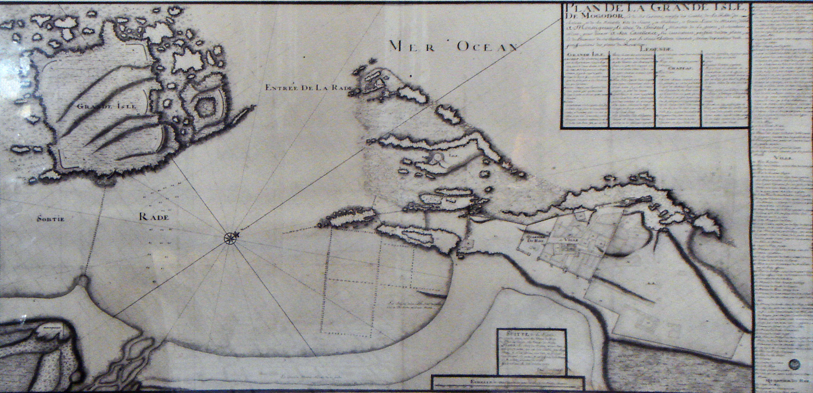 Map_of_Mogador_by_Theodore_Cornut_1767